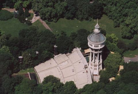 Margitsziget, Budapest, Hungary, aerial photography